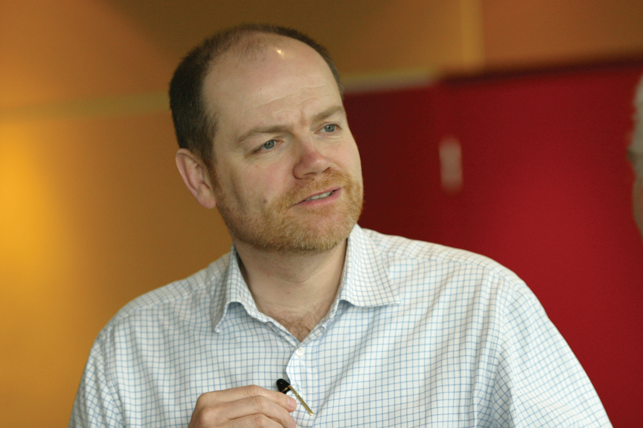 On Friday, to mark the official opening of the University of Salford’s campus at MediaCityUK by HRH Prince Philip, two of the BBC’s biggest names will be awarded with honorary degrees.